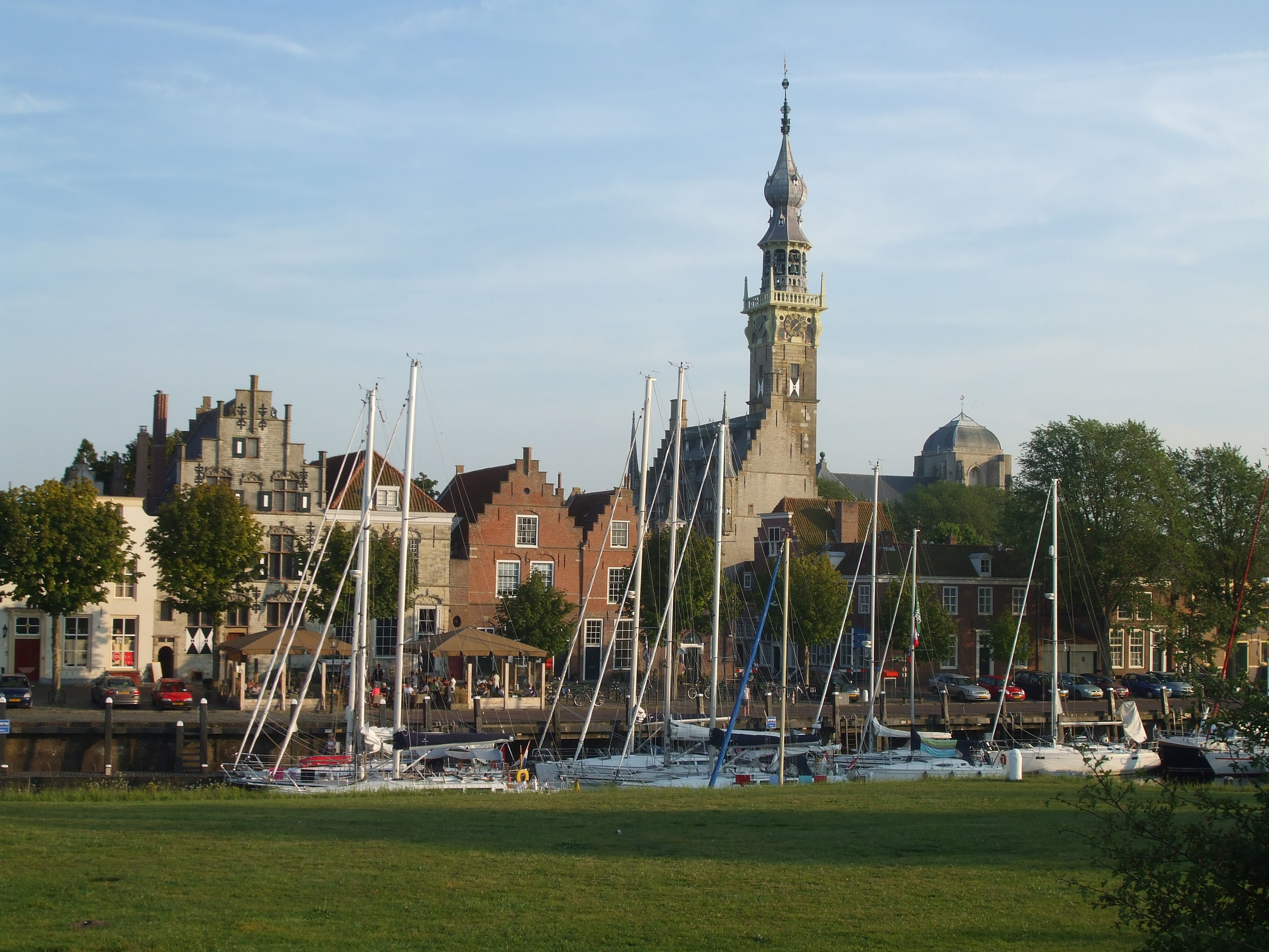 View of Veere